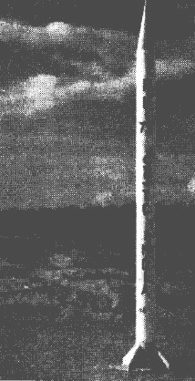 RH-75 rocket, the very first of the Rohini rocket family.